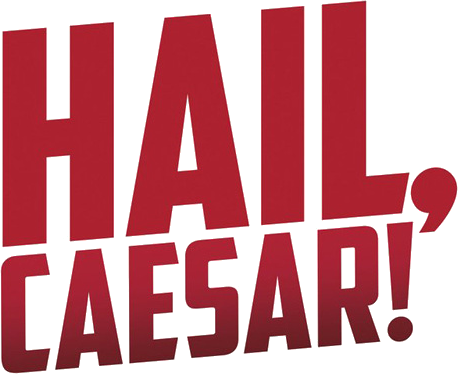 Logo for "Hail, Caesar!"